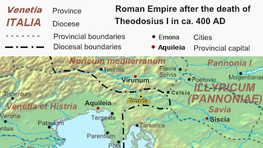 Map of the location of Emona in the Roman Empire ca. 400 AD